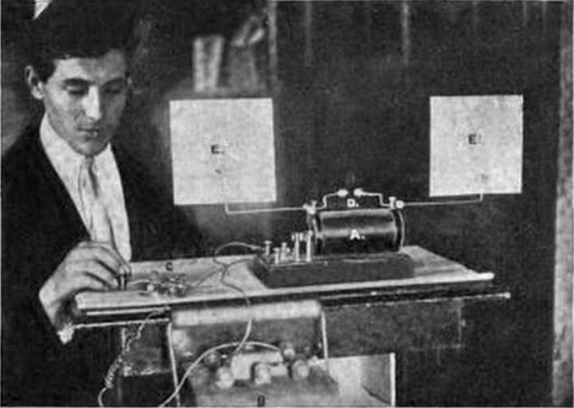 A Hertzian spark gap transmitter used in 1902 by Archie Frederick Collins (in picture) to investigate brain response to radio waves. This was the earliest type of radio transmitter, very similar to the ones Heinrich Hertz used in 1887 to discover radio waves. It consists of a half wave dipole antenna made of two horizontal wires ending in metal plates (E) with a spark gap (D) between them. When the operator presses the telegraph key switch (C), current from the automotive type lead-acid battery (B, bottom) powers the induction coil transformer (A) which produces pulses of high voltage which are applied to the spark gap. Sparks across the spark gap excite standing waves of current in the antenna, which radiates radio waves. The dimensions of the antenna, acting as a half-wave dipole, determine the frequency of the radio waves generated. Since it is roughly one meter long, the radio waves have a wavelength of about 2 meters, resulting in a frequency of about 150 MHz; about the frequency used today by FM radio stations. Alterations to image: partially removed aliasing artifacts (crosshatched lines) caused by scanning of halftone photo, using Fourier transform filter in Gimp image editor.